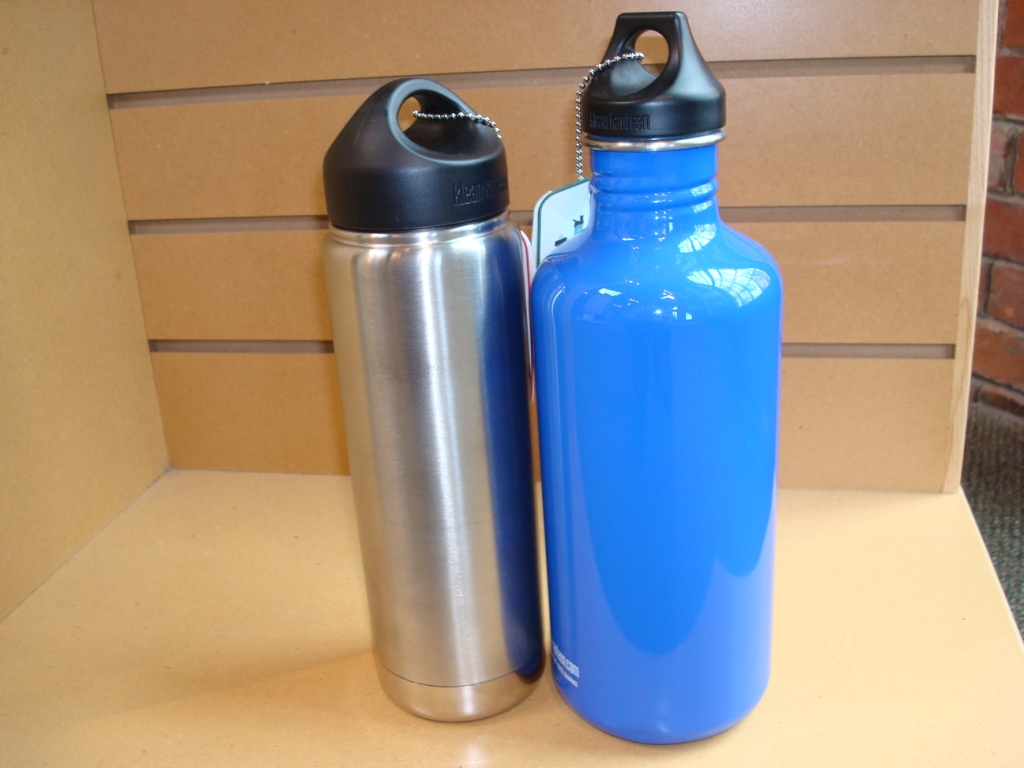 Example of metal water bottles (Aluminium & Stainless Steel)